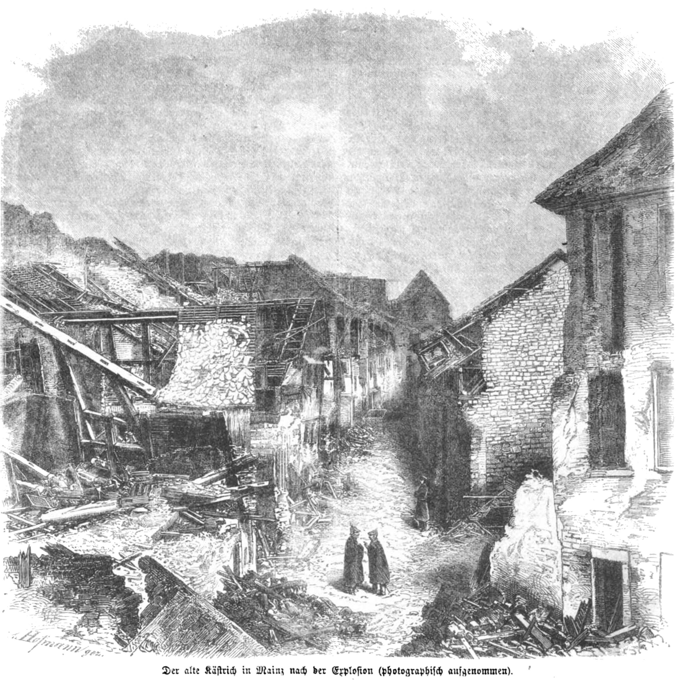 caption: "Der alte Kästrich in Mainz nach der Explosion (photographisch aufgenommen)."